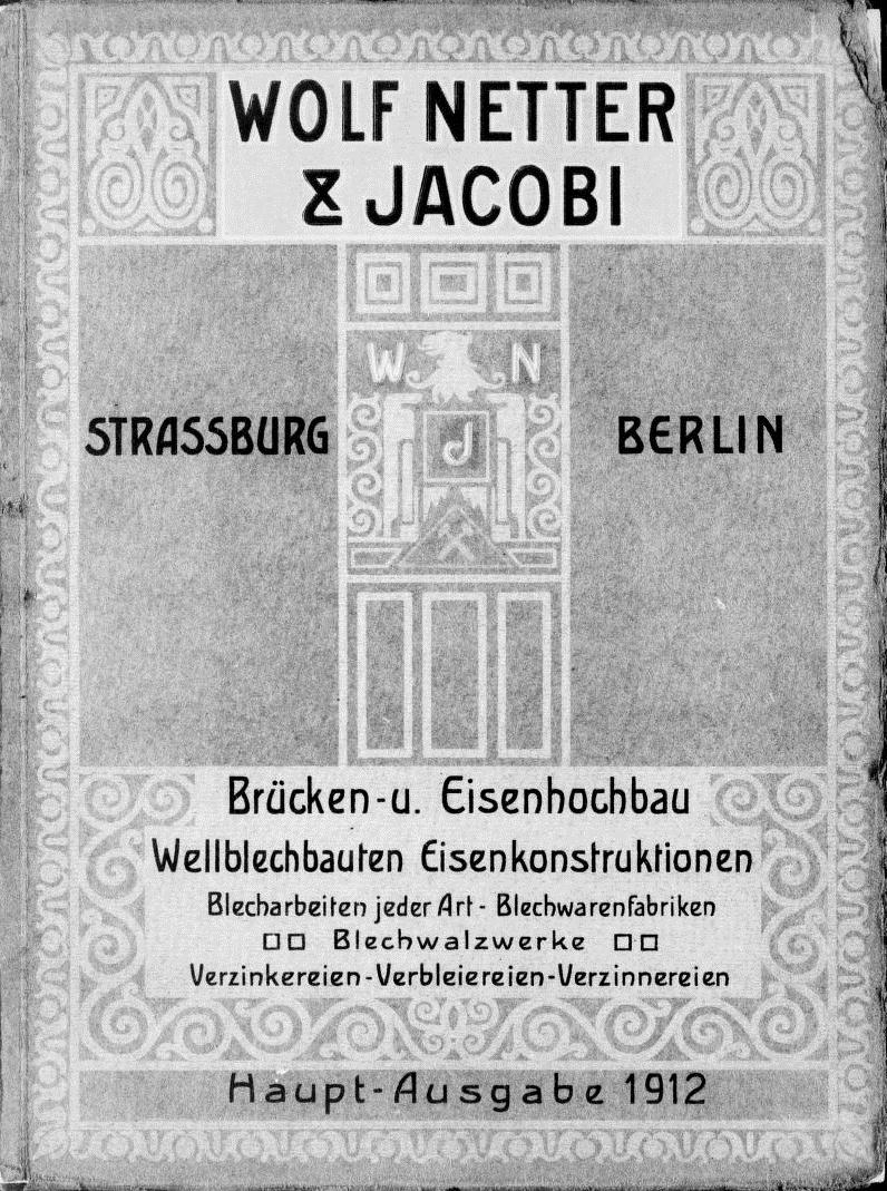 1912 Catalog of Wolf Netter & Jacobi